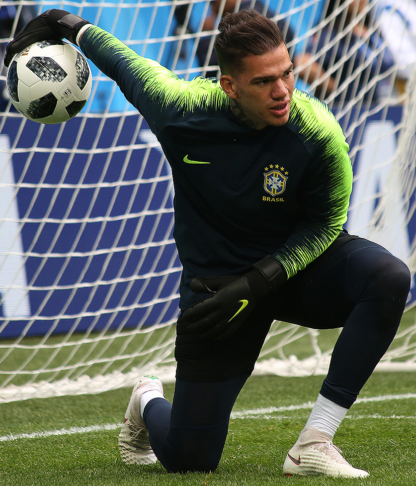 Brazilian footballer Ederson Moraes